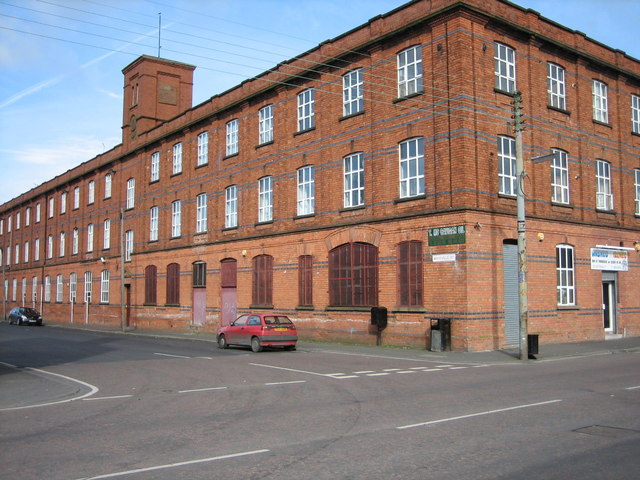 Former Linen Mill. Strictly, it's a Factory, not a Mill. Mills were used for spinning. These were the premises of Johnston, Allen & Company in Victoria Street, Lurgan. "Johnston, Allen & Co. was set up in 1867 for the manufacture of linen and cambric by handloom but transferred to power-loom weaving in 1888." I don't know the date of the building. It is now used by a variety of concerns.